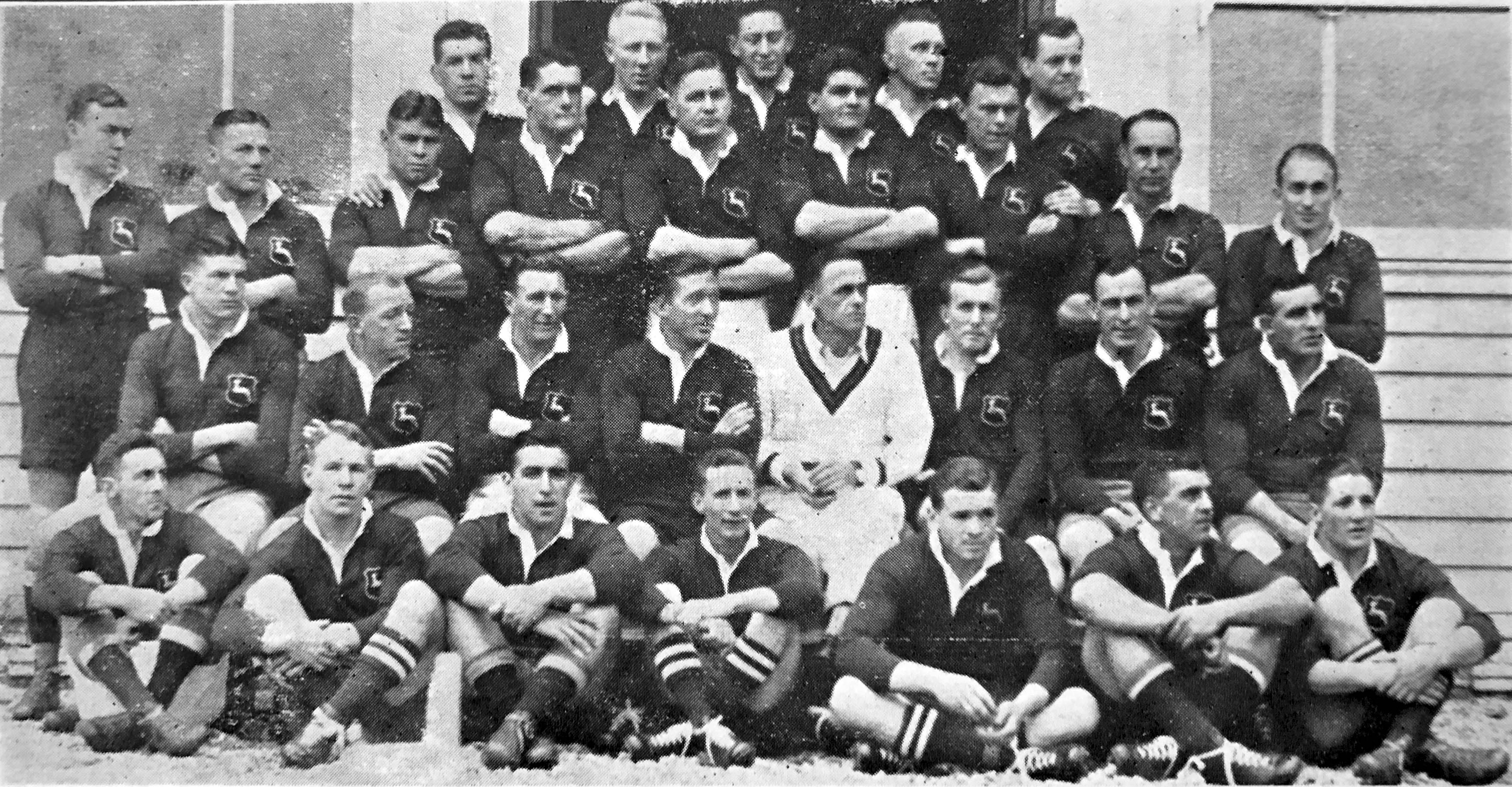 The South Africa national rugby squad that toured to Europe in 1931-32